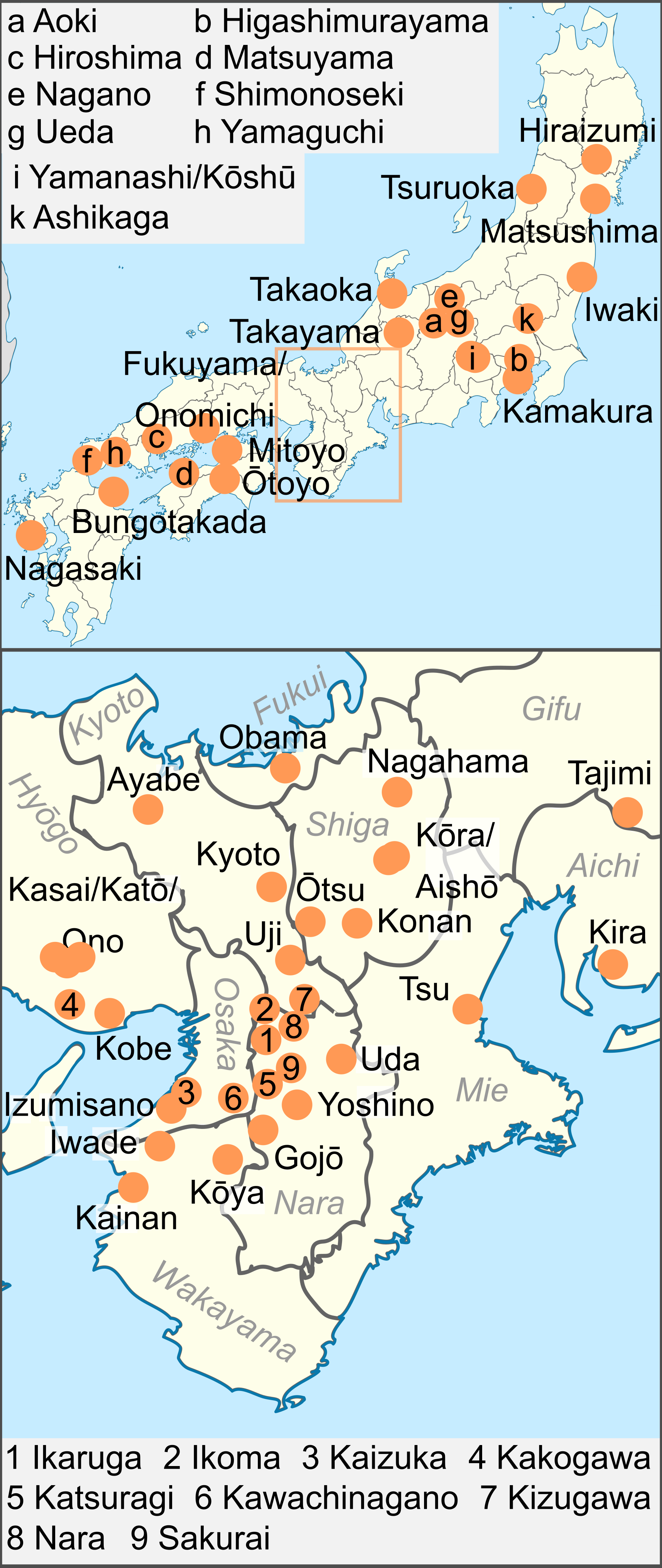 Map showing the location of National Treasures of Japan in the category temples.